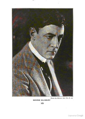 Monroe Salisbury circa 1920